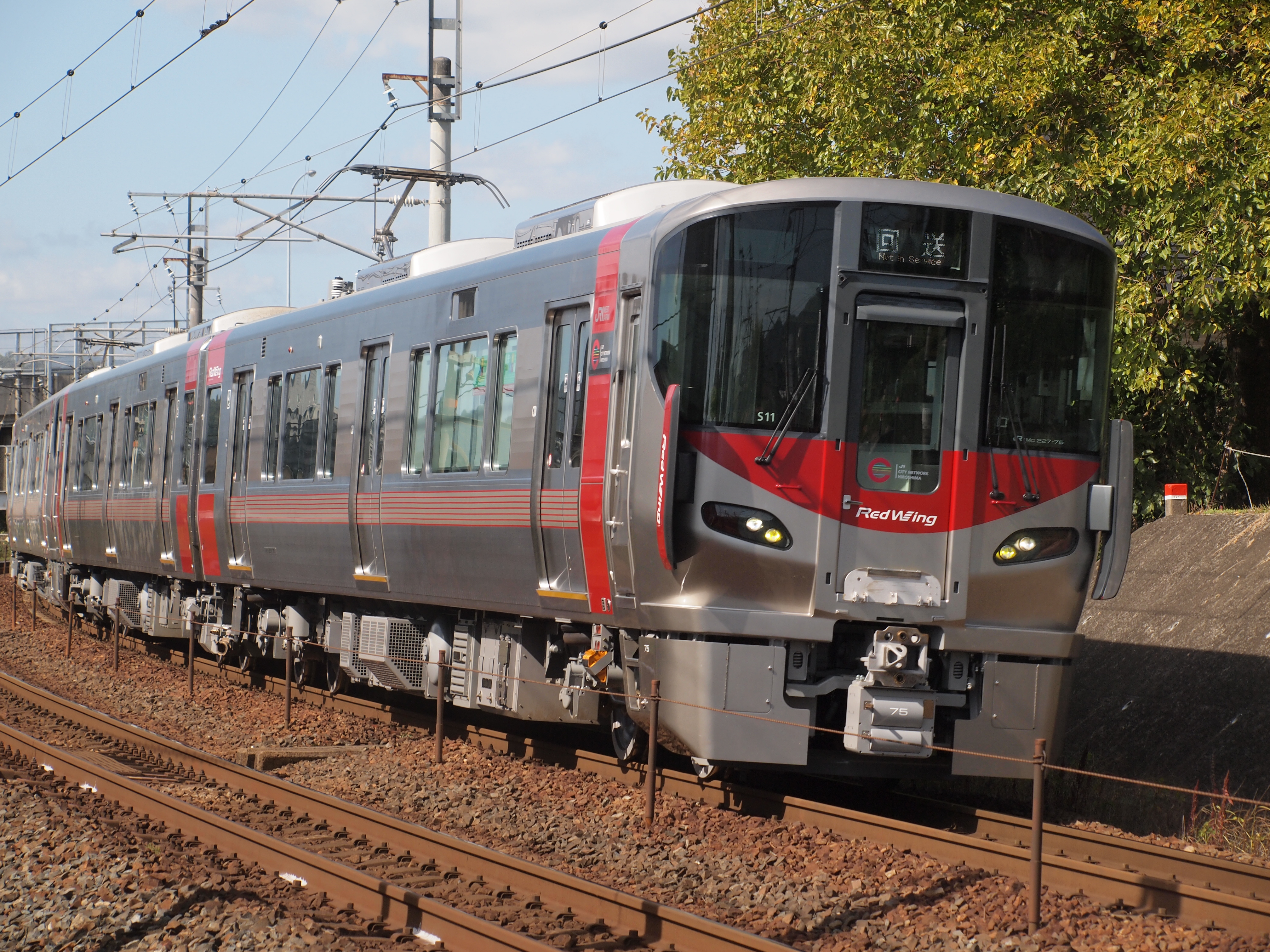 A pair of JR West 227 series EMUs led by two-car set S11